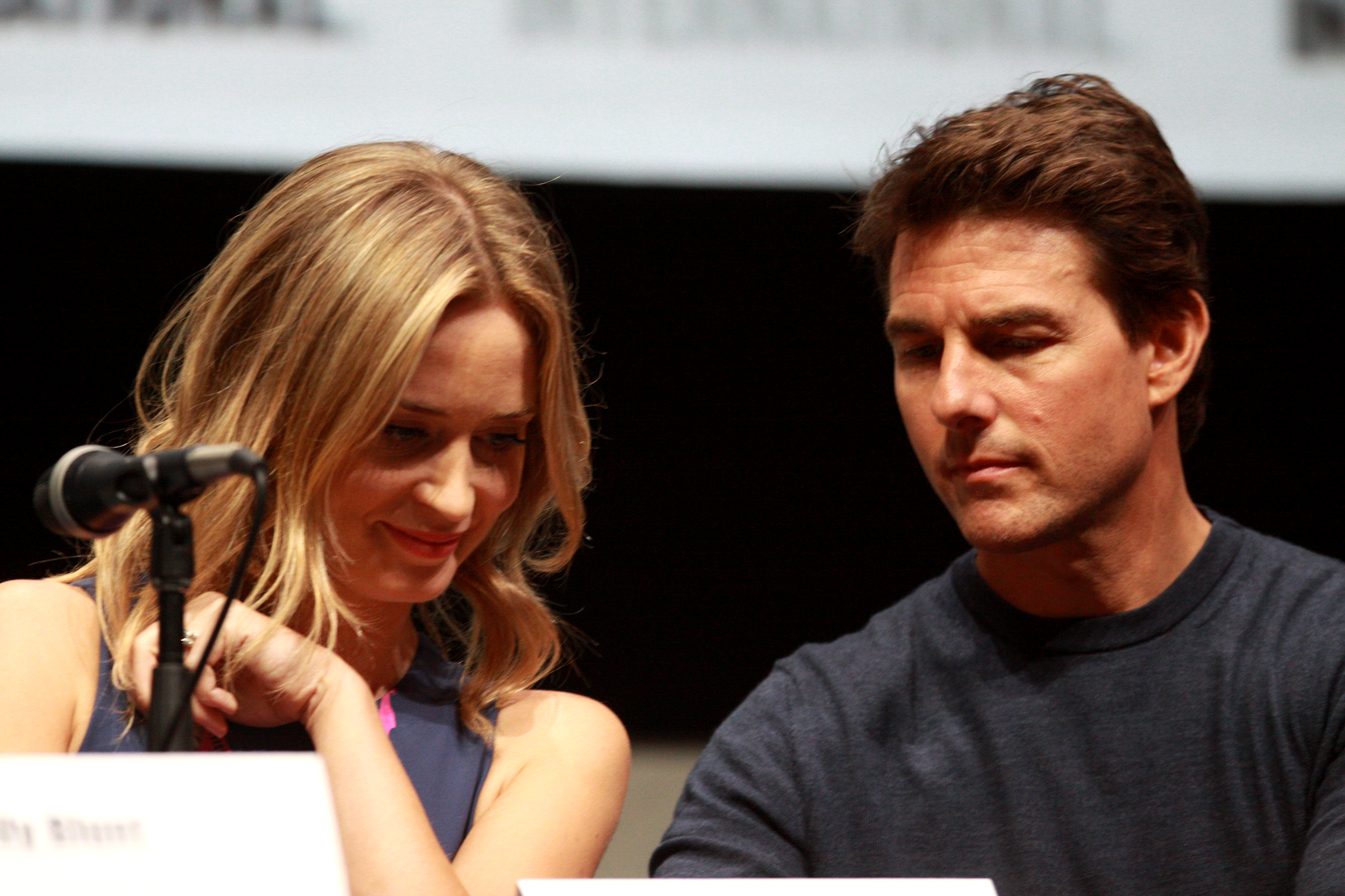 Emily Blunt and Tom Cruise speaking at the 2013 San Diego Comic Con International, for "Edge of Tomorrow", at the San Diego Convention Center in San Diego, California.